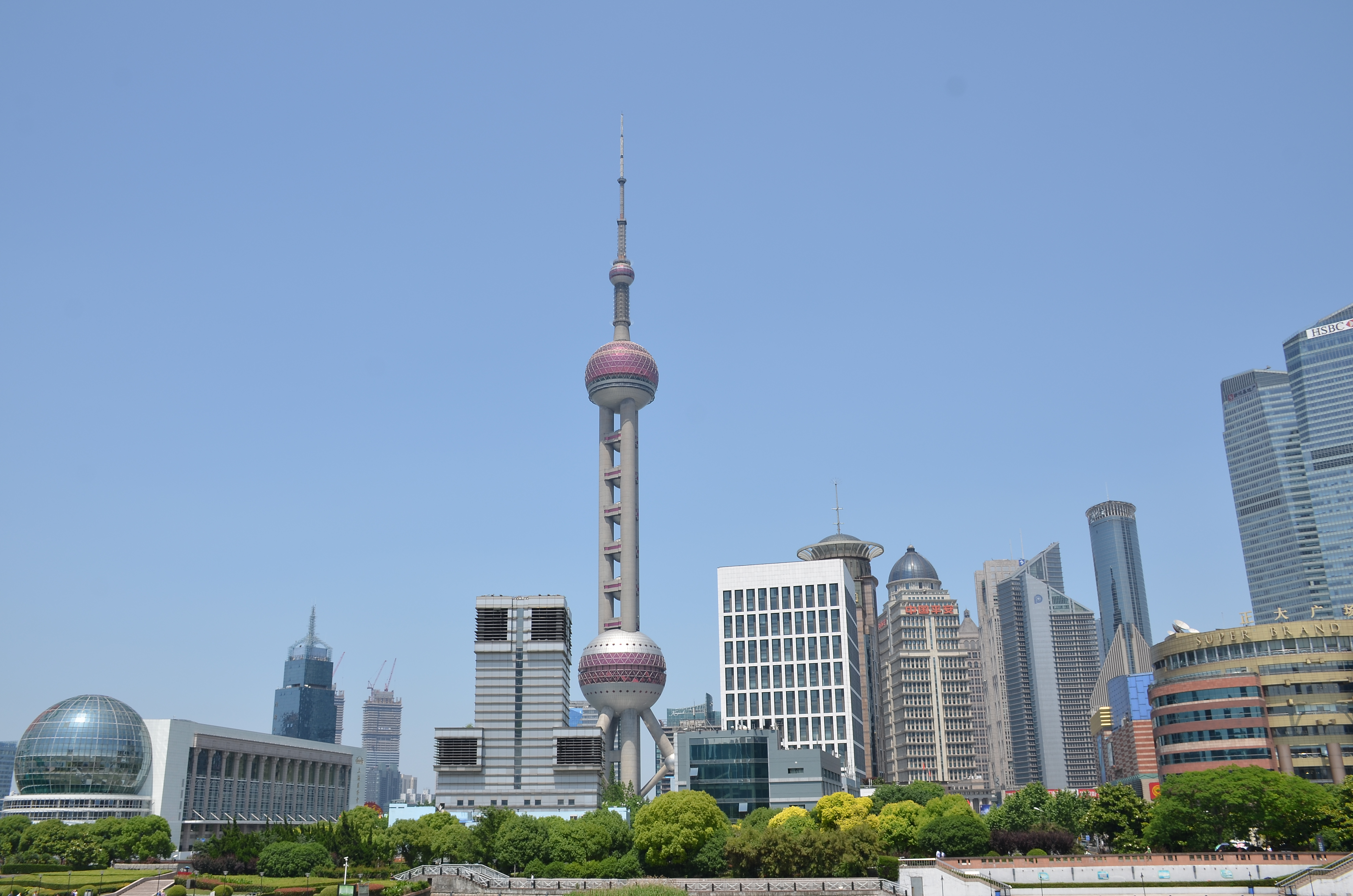 Back to our cruise, that's the Pudong side of the river again and in the distance is the famous Oriental Pearl TV Tower. Yes, that's that needle like structure with an onion stuck into it. Standing by the bank of the Huangpu River, the Oriental Pearl TV Tower has been the outstanding landmark of Shanghai since its completion in 1994. With a height of 468 mtr, it was the tallest structure in China before it was surpassed by the Shanghai World Financial Center in 2007. Now, it is the fifth highest tower in the world. This tower features prominently in pictures of the now famous Shanghai skyline taken from the Bund. More detailed notes about the Oriental Pear TV Tower appear in a subsequent caption. Now I'm not on the Bund itself, but am on a boat near the Bund side of the river. (Shanghai, China, May 2017)